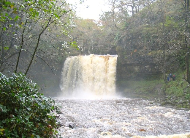 Sgwd yr Eira in full flow. After a huge downpour the waterfall is fully fleshed out. It is still quite possible to pass behind it, but you WILL get soaked through from the spray unless you are dressed like a trawlerman.